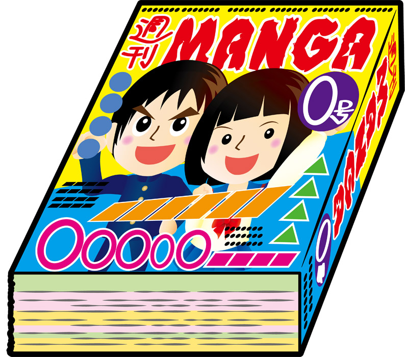 Cover of manga magazine